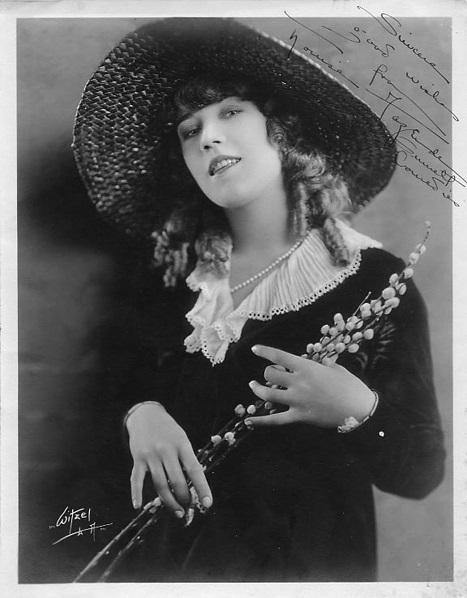 Portrait of American actress Louise Fazenda (1895-1962) by Albert Witzel